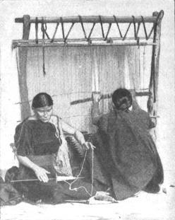 The original caption of the drawing in the book from which it came was "Navaho spinning and weaving". It was located on page 928 of the book.